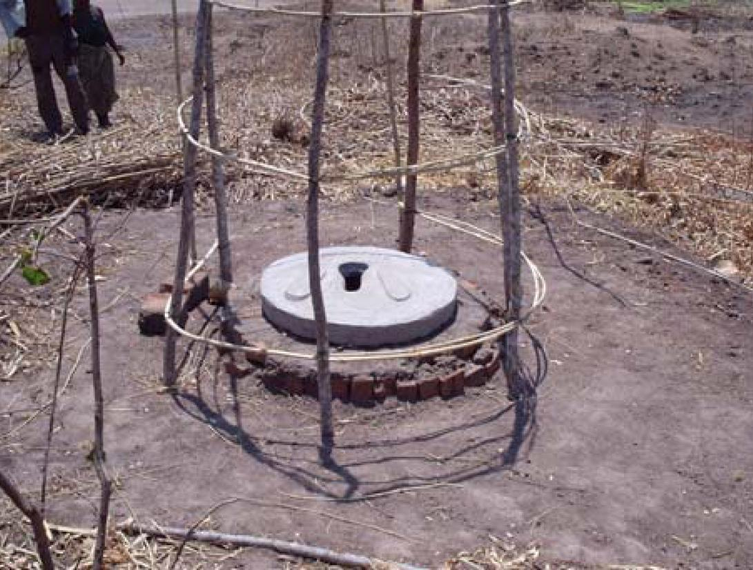 Malawi - An ecological approach to low cost sanitation provision